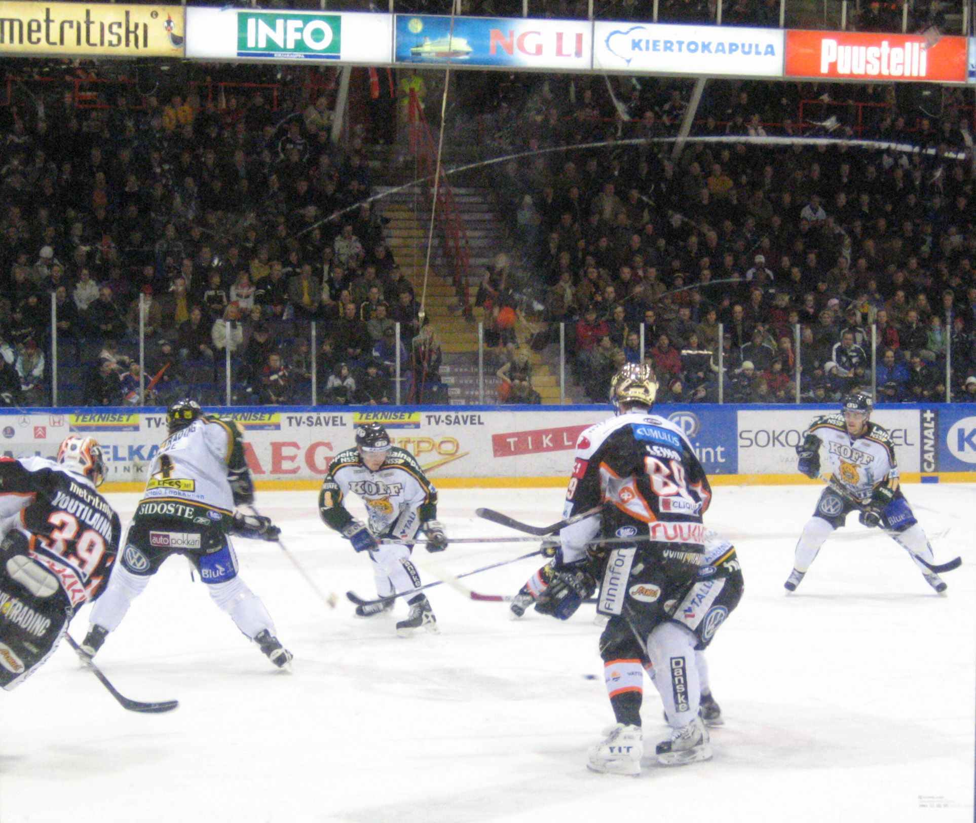 HPK-Ilves, quarterfinals 2006, game 3